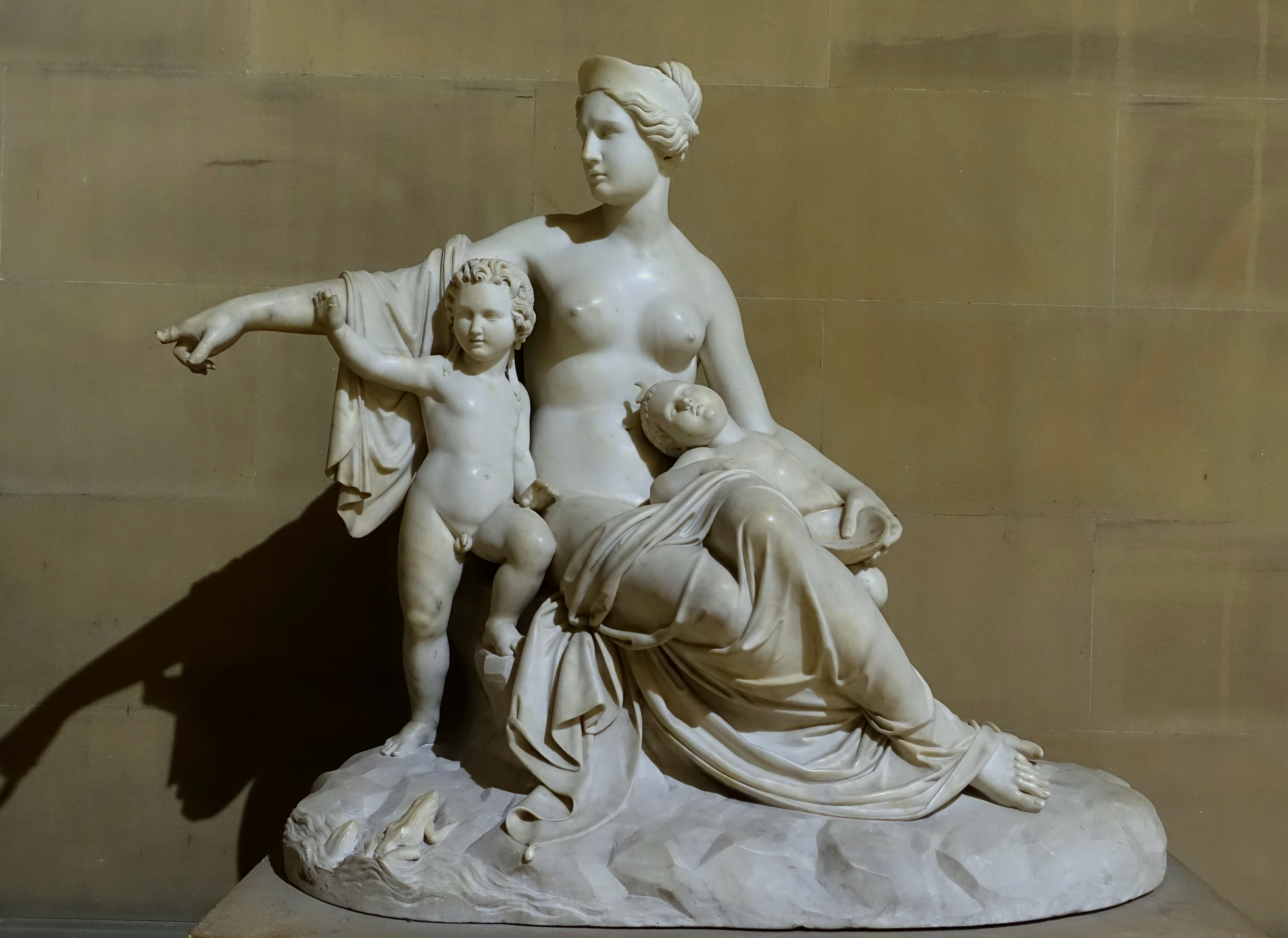 Sculpture in the Sculpture Gallery, Chatsworth House - Derbyshire, England.